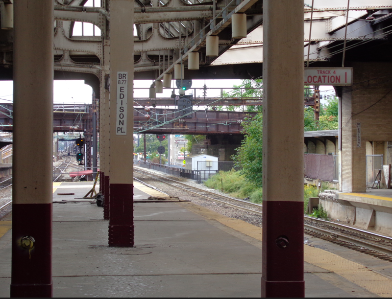 Newark&NYRRbridgeoverNECPennStation